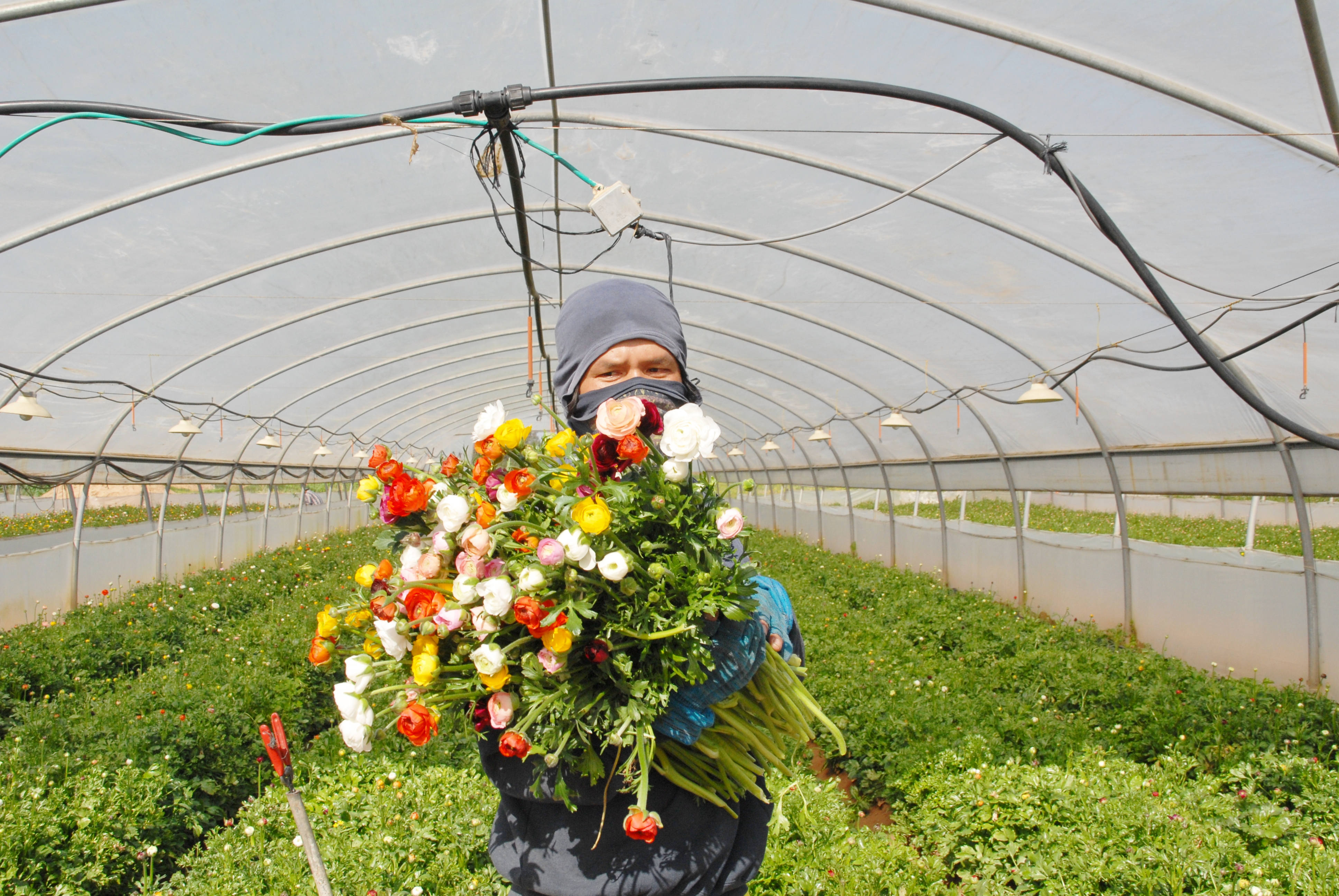 Agriculture in Israel